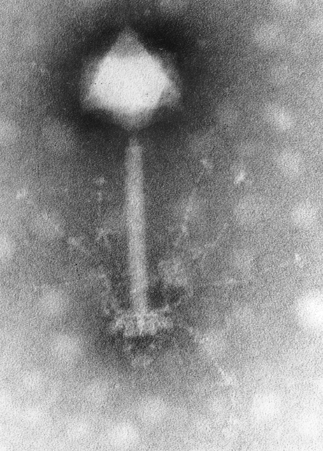 A Transmission Electron Microscope Image of the Synechococcus Phage S-PM2